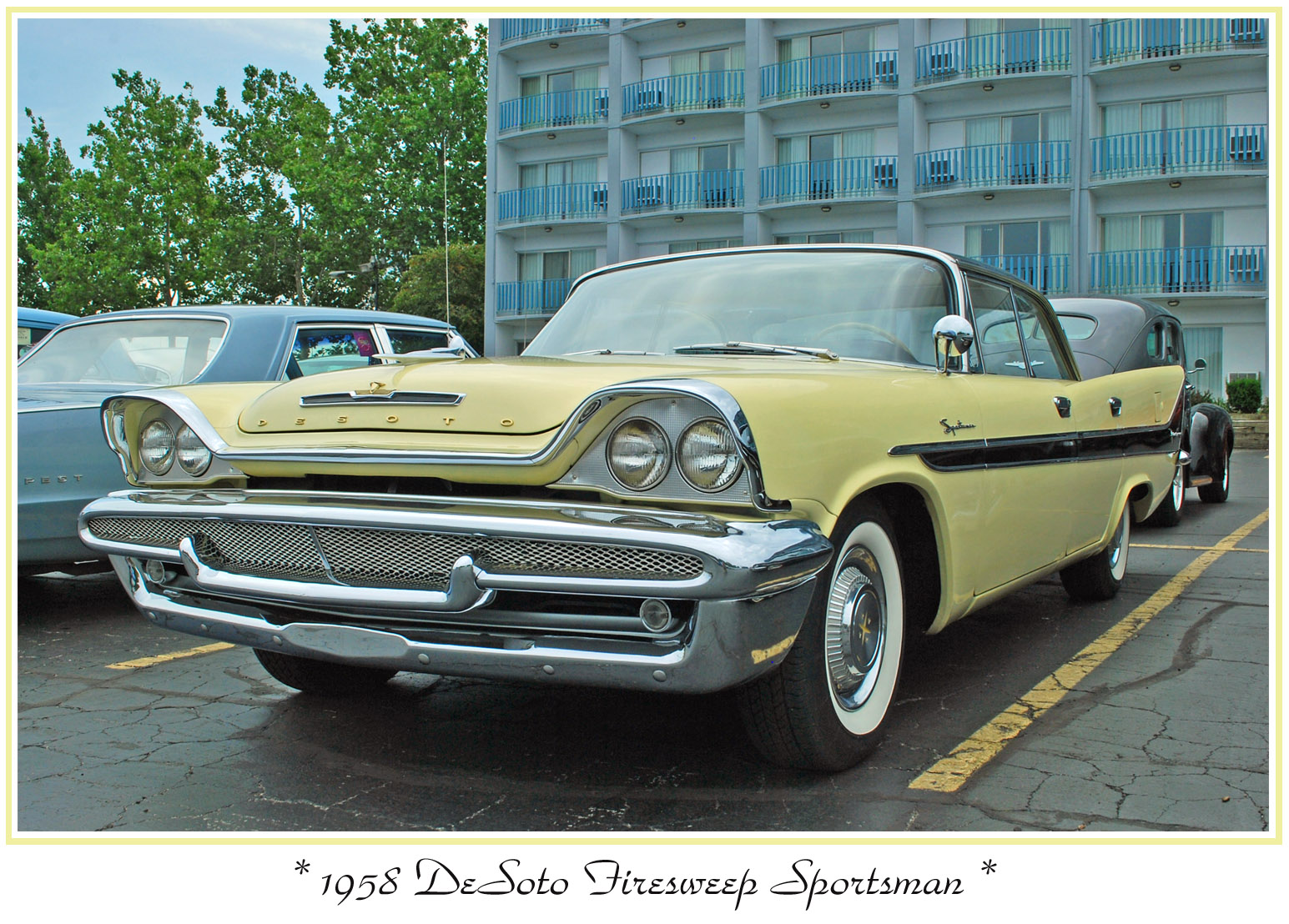 1958 DeSoto Firesweep 4 door Sportsman at 2009 National DeSoto Club meet in St. Joseph, Michigan, July 22-26, 2009. This photo was taken in the Howard Johnson Inn parking lot, host hotel for the meet.